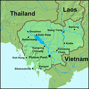 Map of Cambodia